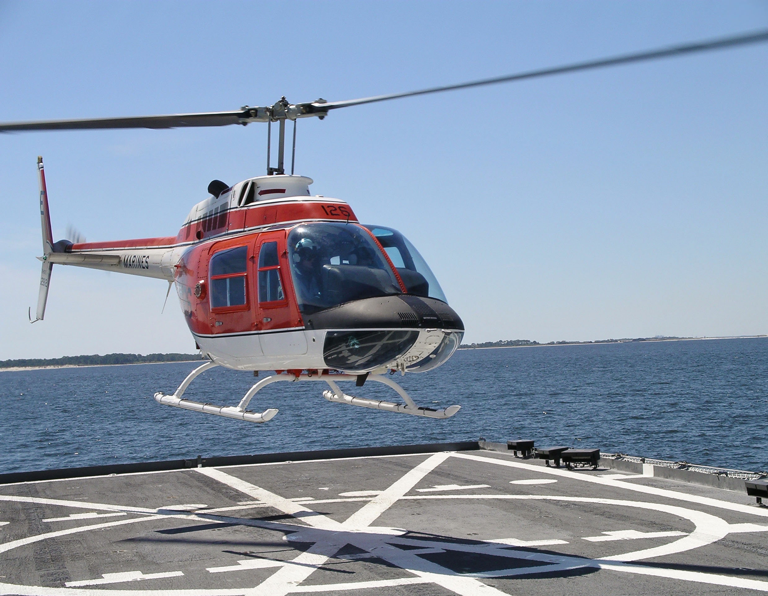 Navy flight school student Bryan Weatherup piloting a TH-57C landing on the NETC trainer ship in Pensacola Bay in 2003.